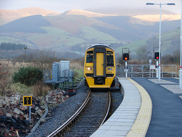 An Arriva Wales train pulls into Dovey Junction Station I couldn't resist adding just one more view of this very scenic railway location!